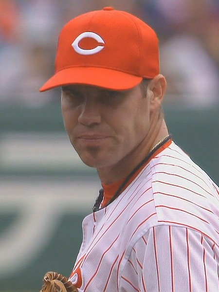 Colby Lewis